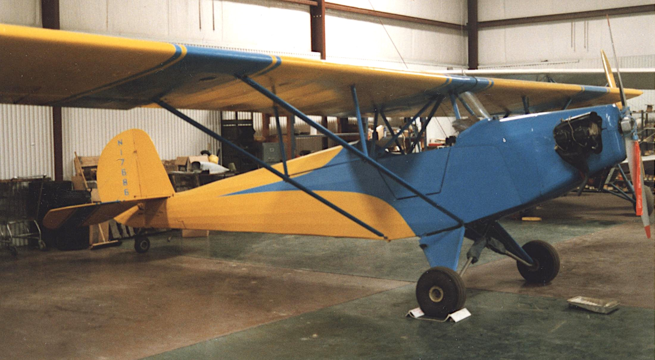 American Eagle Eaglet, A-31-1B (NC17686), high-wing light aircraft of 1940 at Santa Fe airfield, New Mexico, USA